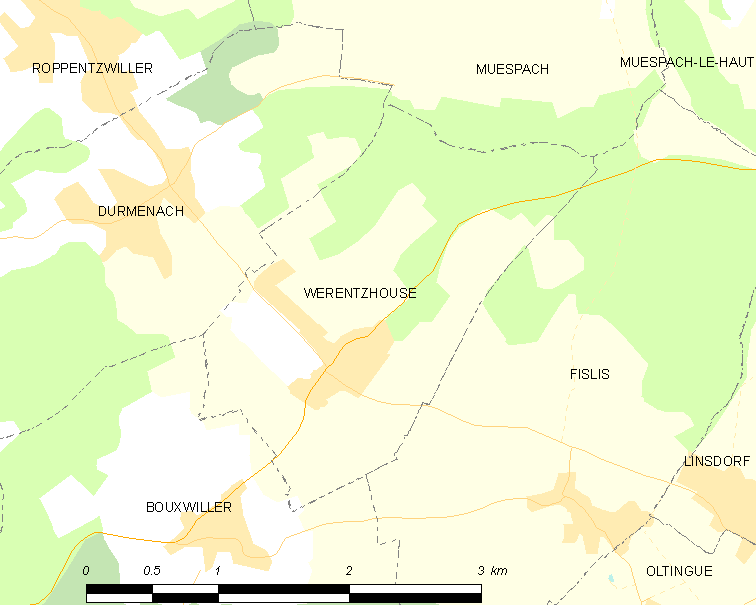 Map of French municipality